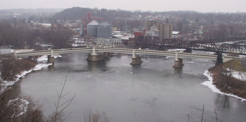 Panorama of the Y Bridge, which carries U.S. Route 40 over the confluence of the Muskingum and Licking Rivers at Zanesville, Ohio, United States. It is listed on the National Register of Historic Places.